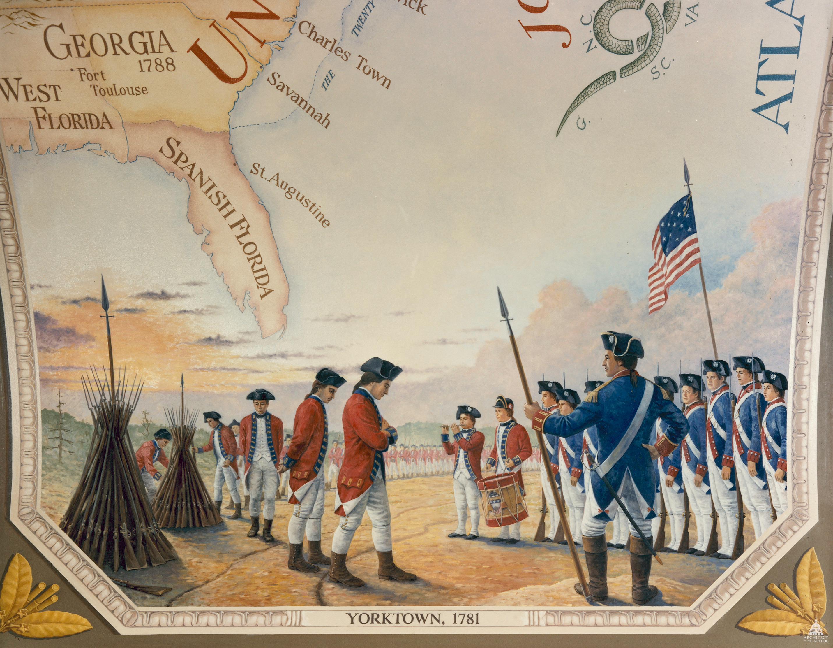 EverGreene Painting Studios Oil on Canvas 1993-1994 At the end of the Revolutionary War, the British are shown laying down their arms against a symbolic sunset. This official Architect of the Capitol photograph is being made available for educational, scholarly, news or personal purposes (not advertising or any other commercial use). When any of these images is used the photographic credit line should read “Architect of the Capitol.” These images may not be used in any way that would imply endorsement by the Architect of the Capitol or the United States Congress of a product, service or point of view. For more information visit